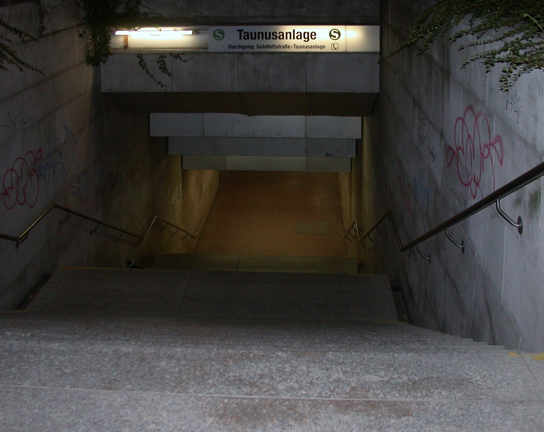 Entry to the S-Bahn station "Taunusanlage"